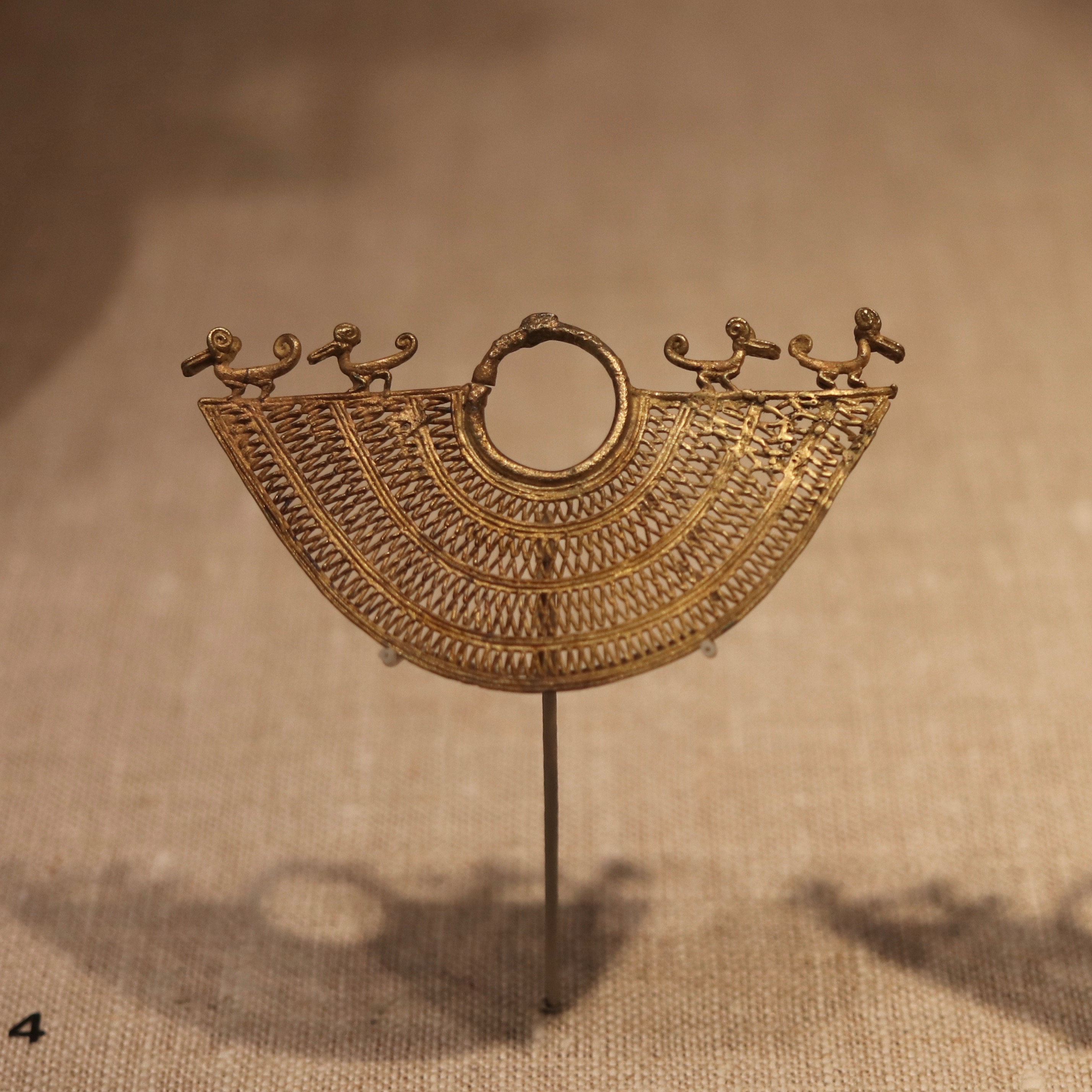 [One of a] Pair of Earrings, AD 800 Zenú / Sinú region, Colombia Gold The Dom Joseph Judge, M.D. Collection donated by the Judge Family 2002.24.1a, b This pair of cast filigree earrings is characteristic of the Zenú / Sinú culture of ancient Colombia.